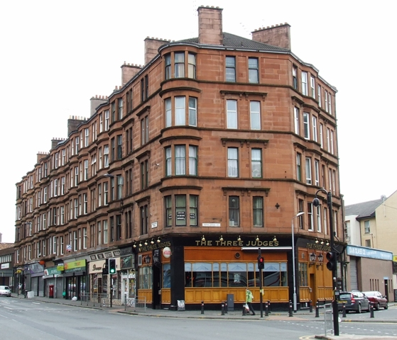 Partick Tenement At partick Cross, with "The Three Judges" pub on the ground floor.